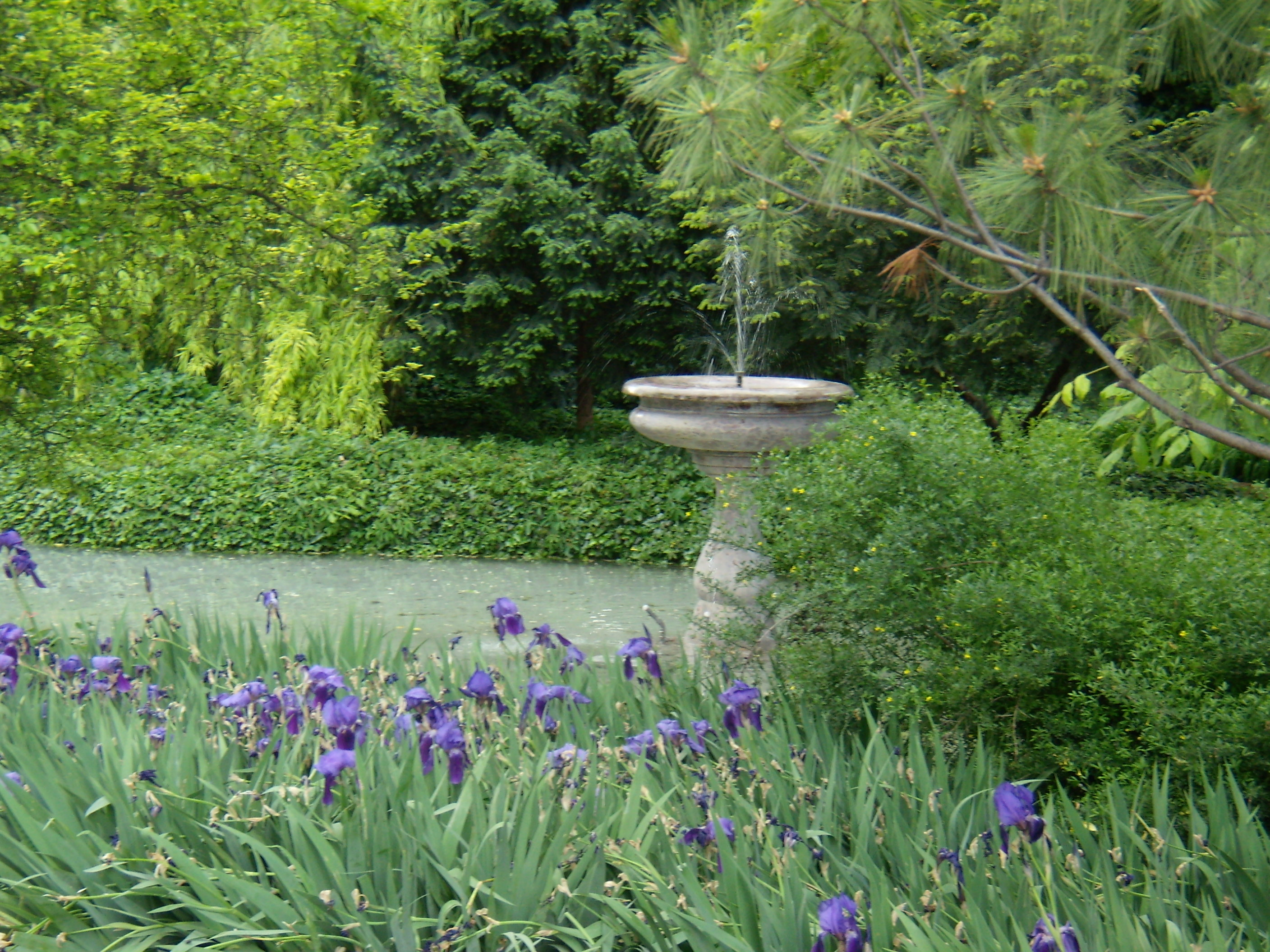 The City garden in Plovdiv